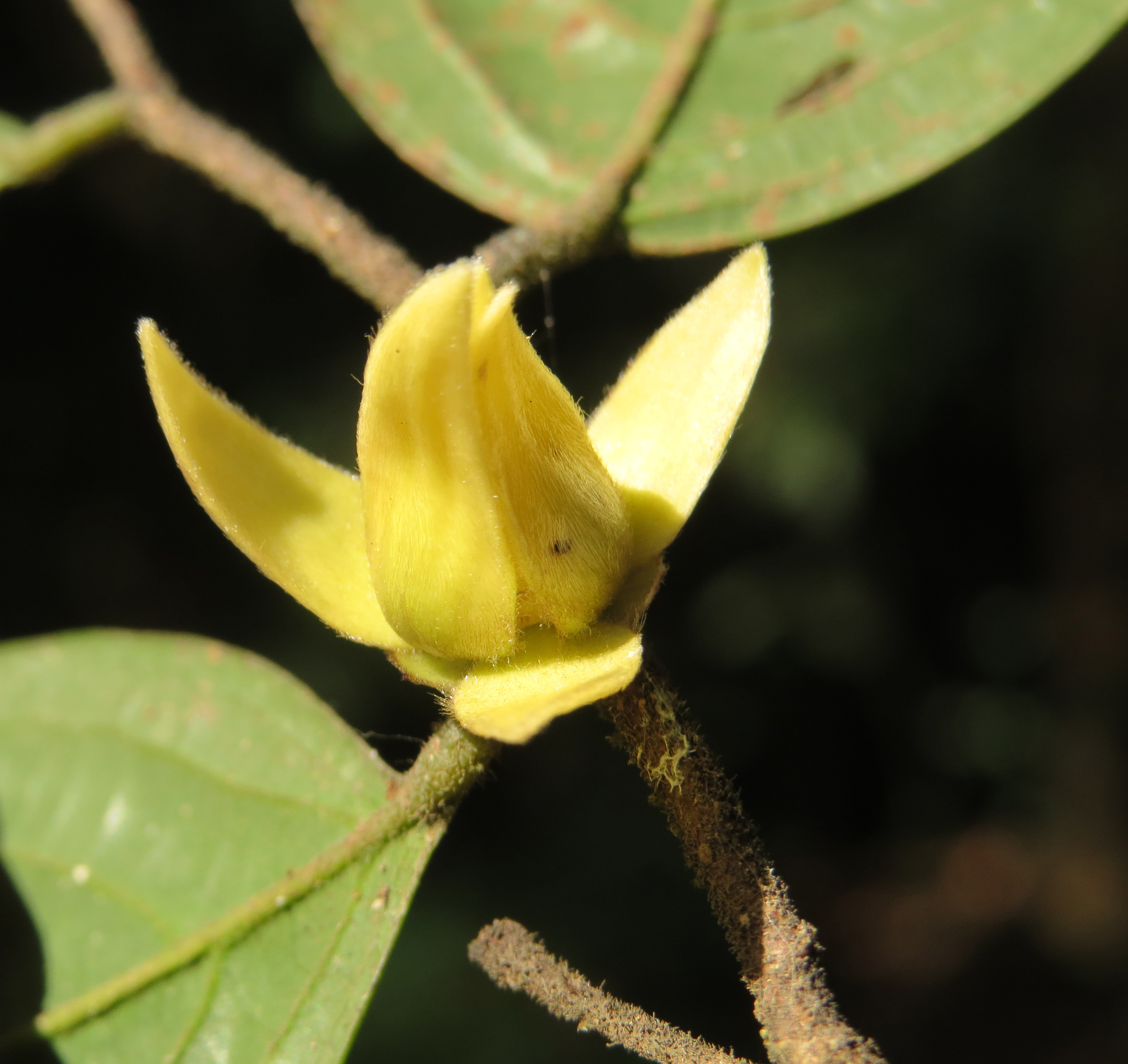 Meiogyne pannosa